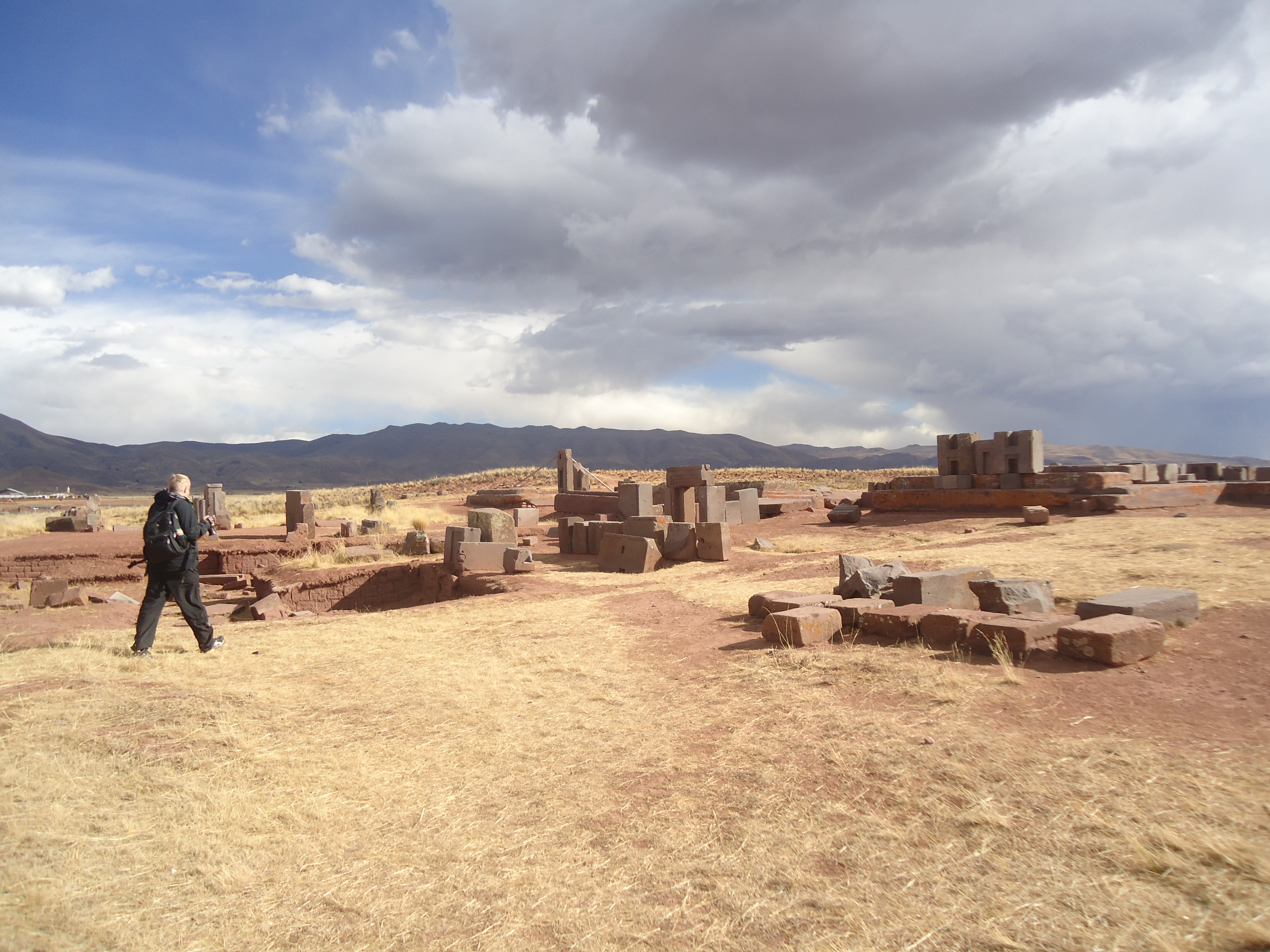 Landscape picture from Pumapunku